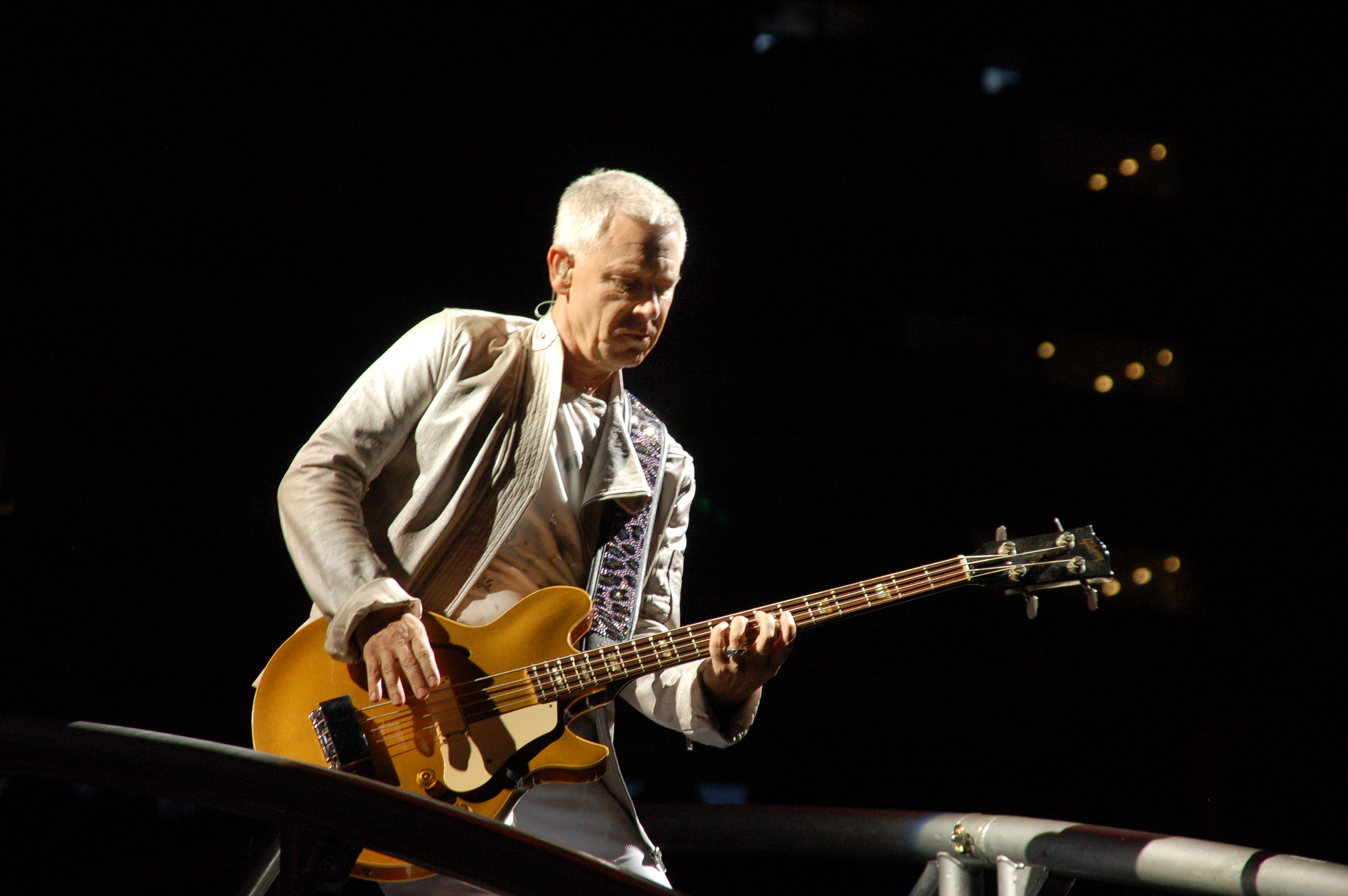 Adam Clayton Adam Clayton of U2 performing in Salt Lake City, Utah on May 24, 2011 on the band's U2 360 Tour